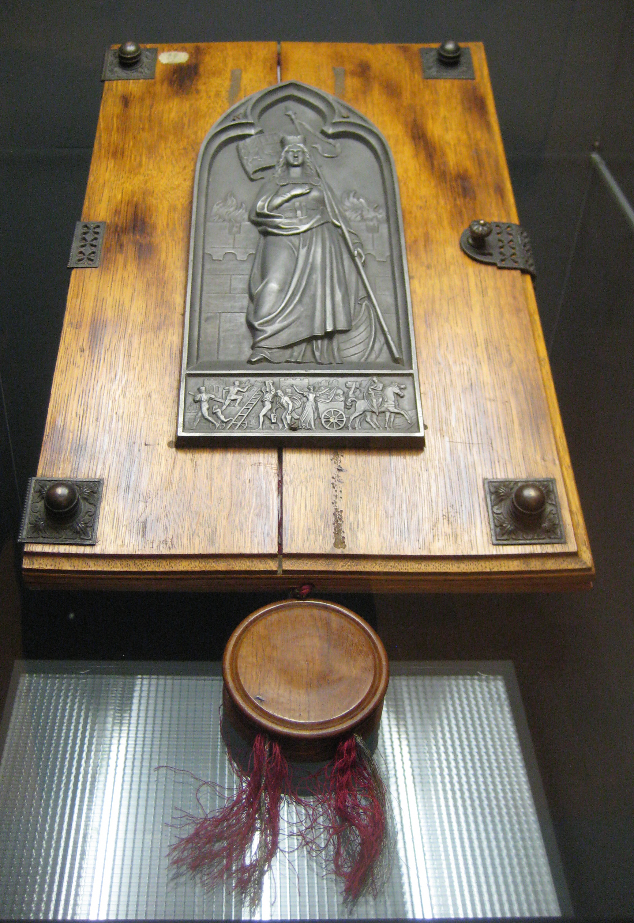 Hamburg, Germany